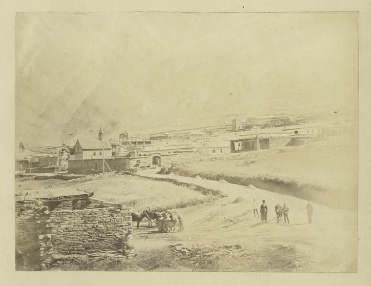 Batum. View of village